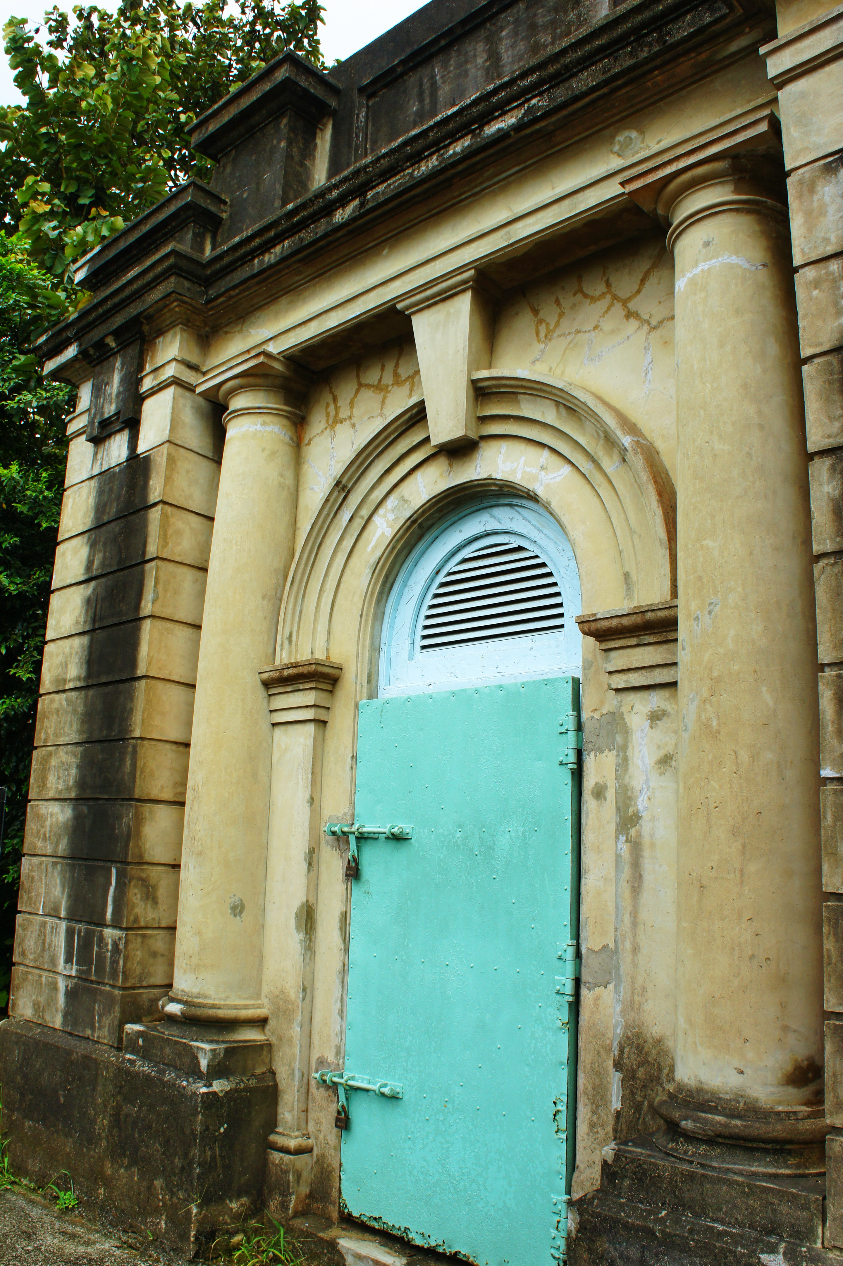 The Water Meter Room, Chiayi, Taiwan.